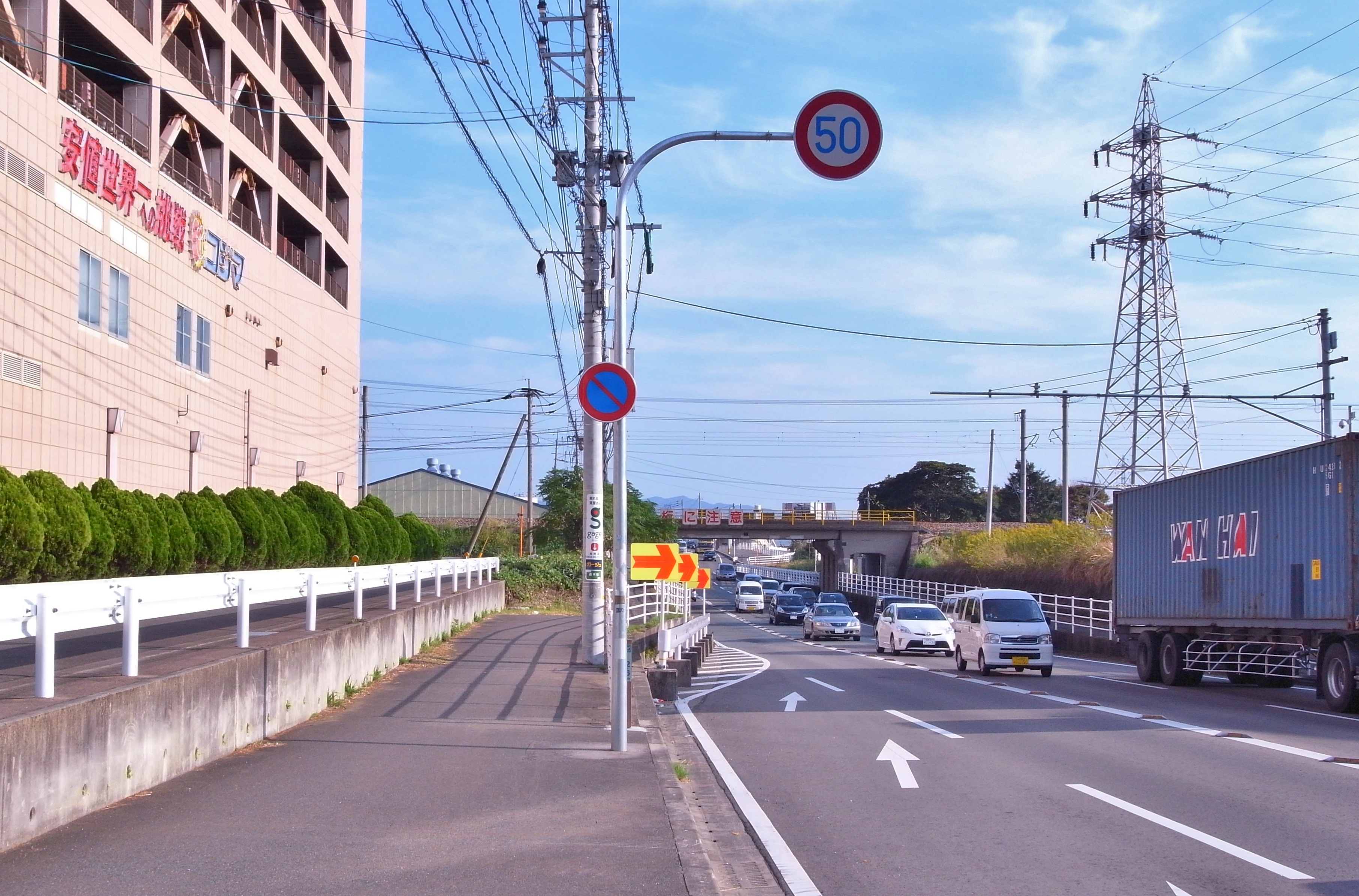 Fukuoka & Saga pref. road No.17, the place which two-lane turn into mono-lane suddenly.